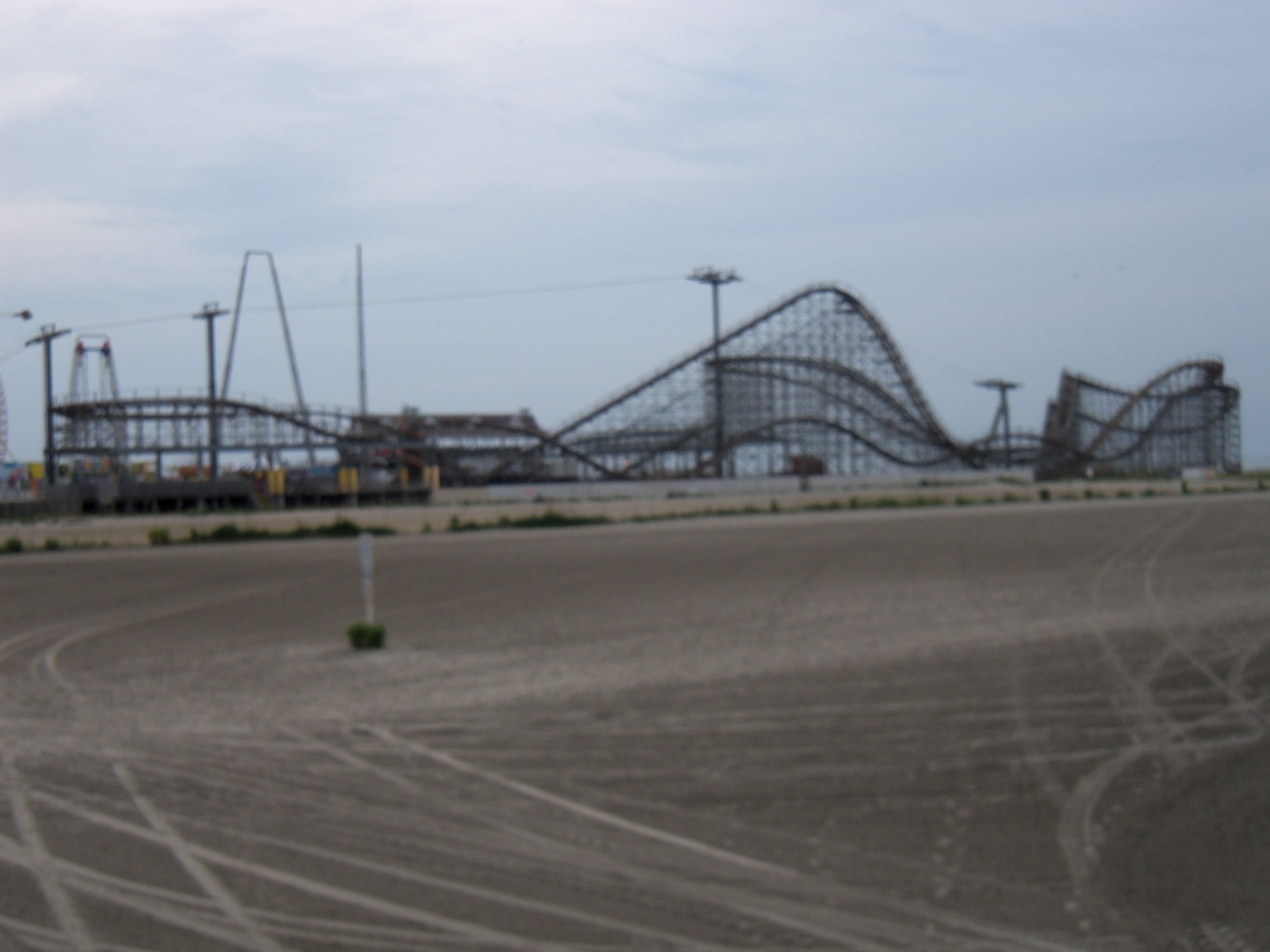 The Great White on South Side of Boardwalk.